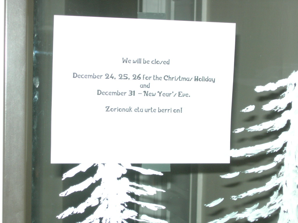 a notice in English and Basque in a restaurant in Boise, Idaho